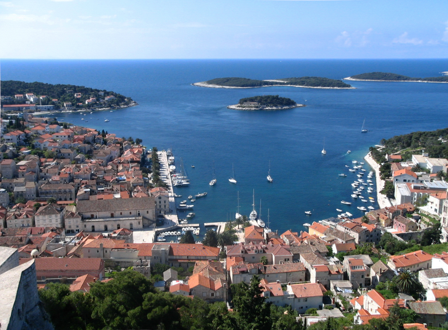 City of Hvar (Croatia). Own photo.